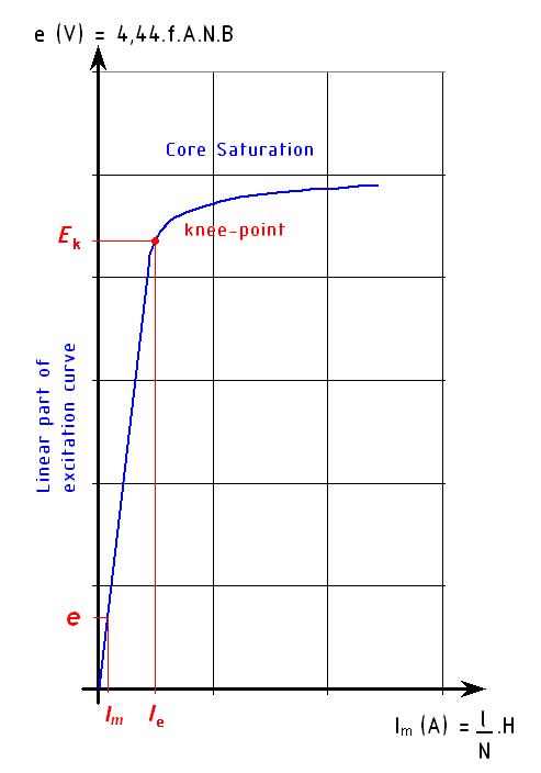 Typical magentisation curve of a current transformer indicating the normal working point